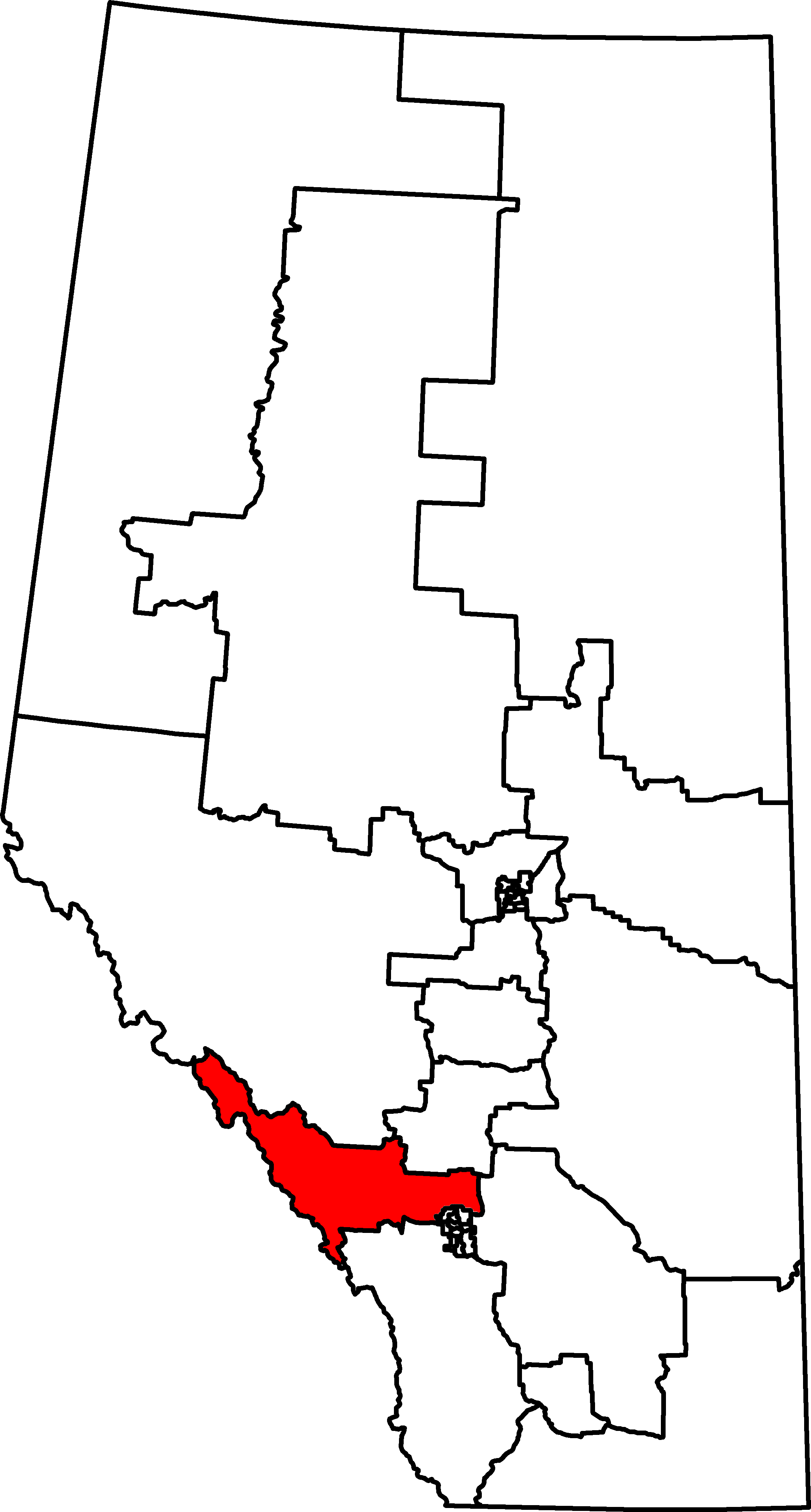 Federal Electoral District in Alberta, Canada as of the 2013 Representation Order.